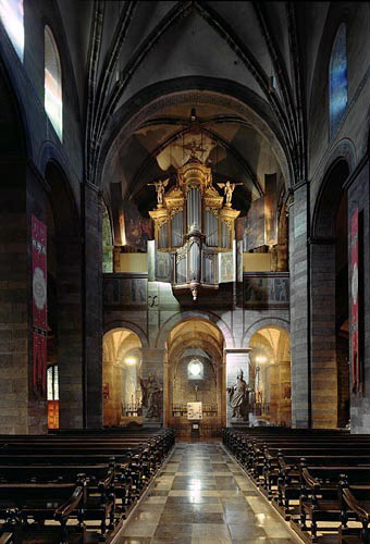 Basilica of Our Lady, Maastricht, the Netherlands. Interior towards the West. Organ.